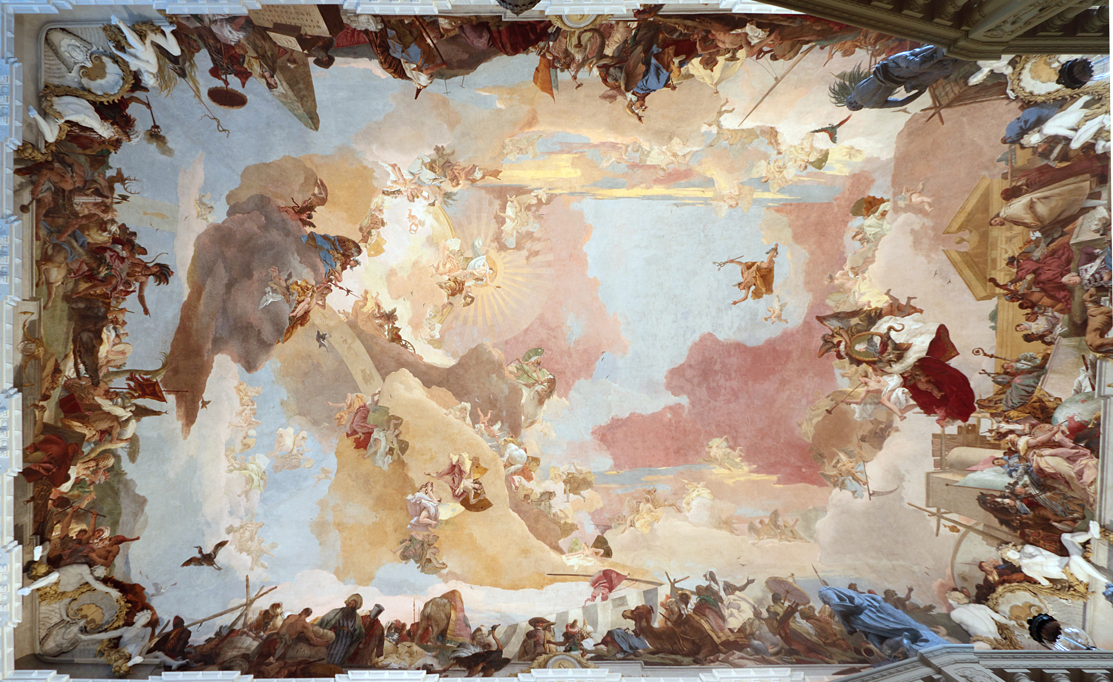 G.B. Tiepolo, ceiling fresco at Wurzburg Residence